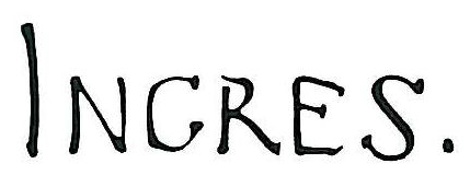 autograph of the painter Jean Auguste Dominique Ingres